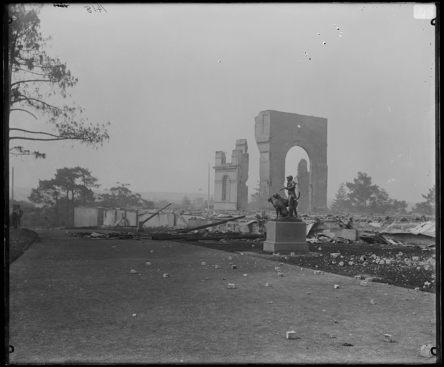 After the fire - The Garden Palace [NRS 4481 SH1418] On September 22nd 1882 the Garden Palace fire occurred. The Garden Palace was built in only eight months to house the Sydney International Exhibition in 1879 in the southwestern end of the Royal Botanic Gardens. At the time of the fire a number of government departments housed records in the Palace so that when fire completely engulfed the timber building a number of significant documents, such as the 1881 Census, were destroyed. » View the Garden Palace Fire Gallery (photos and documents including a report by the night watchman) Rights: No known copyright restrictions We'd love to hear from you if you use our photos. Many other photos in our collection are available to view and browse on our website using Photo Investigator.